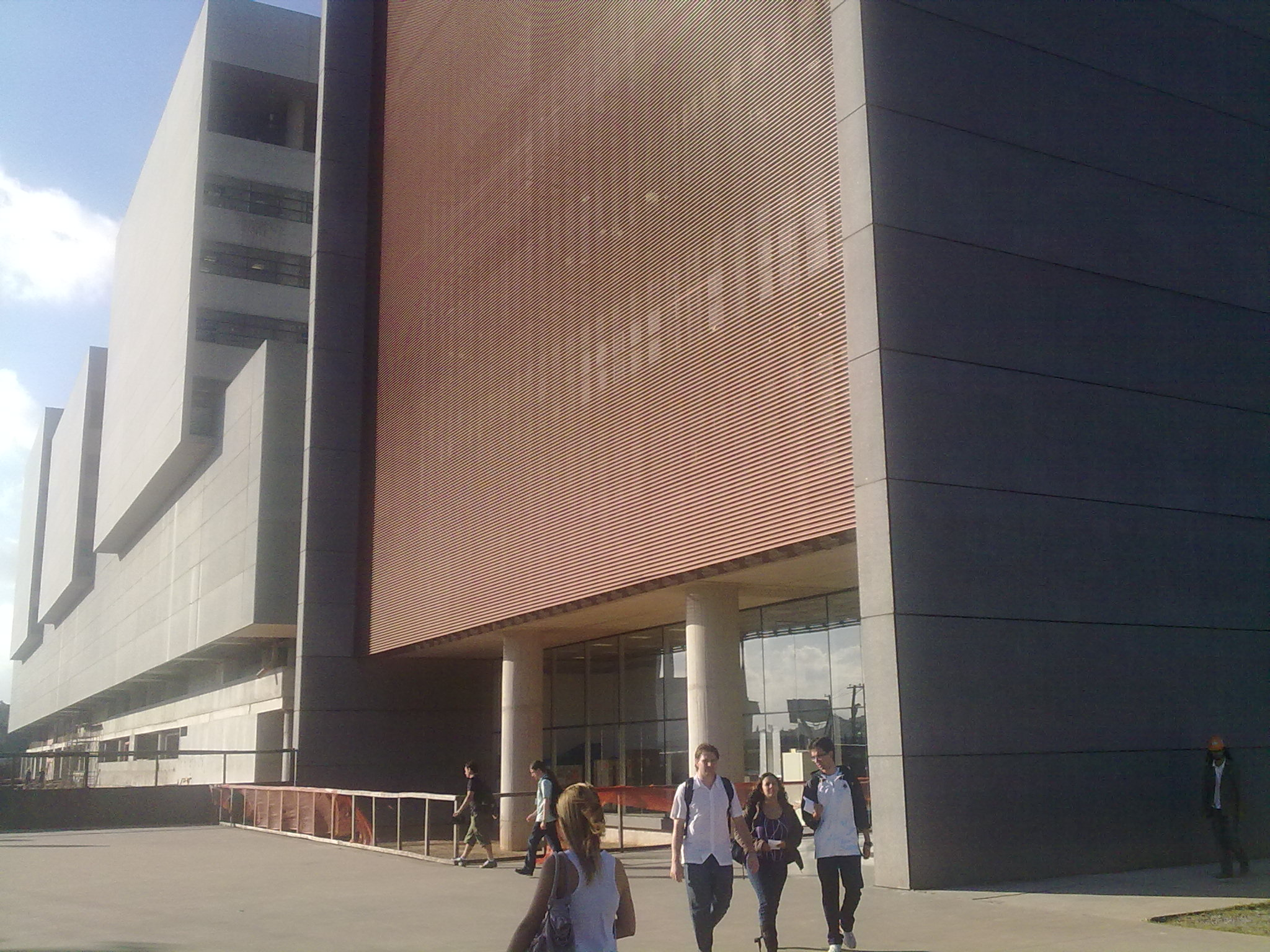 Photo taken by me on April 13, 2010. Shows the entrance of Block B of the campus of Santo Andre, São Paulo, of the UFABC - Federal University of ABC.